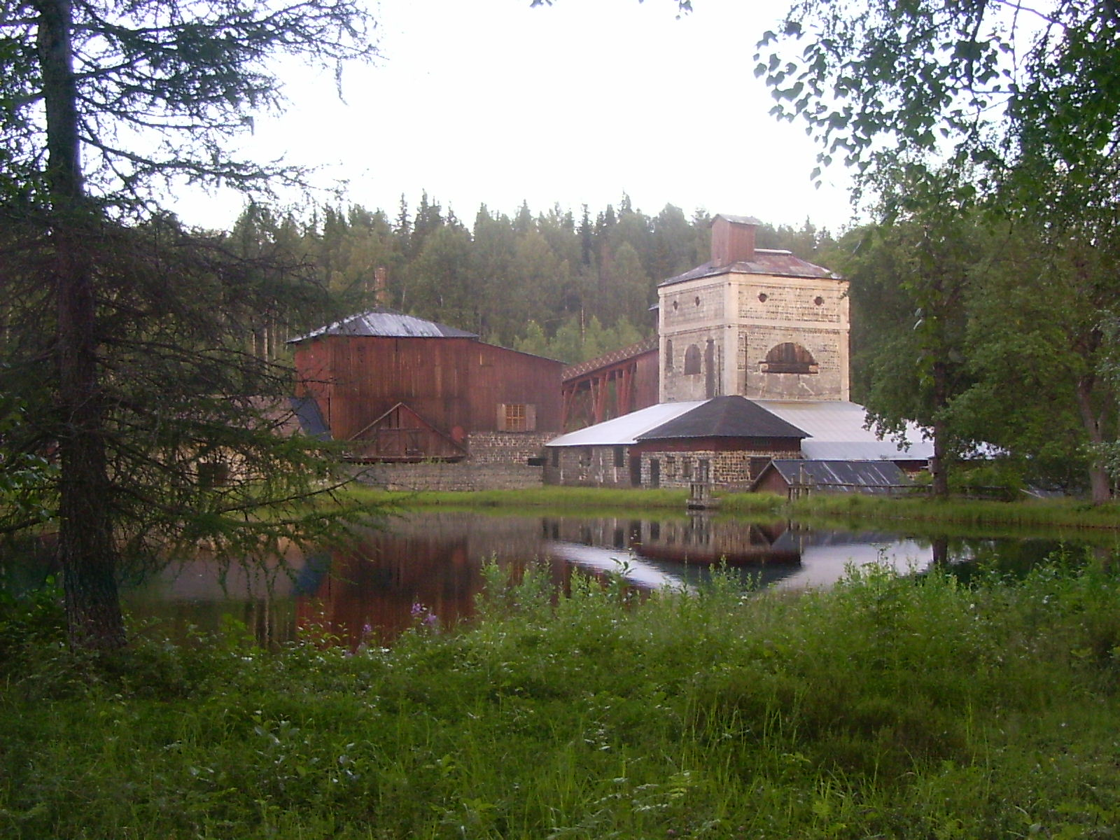 Ågs bruk, the blast furnace